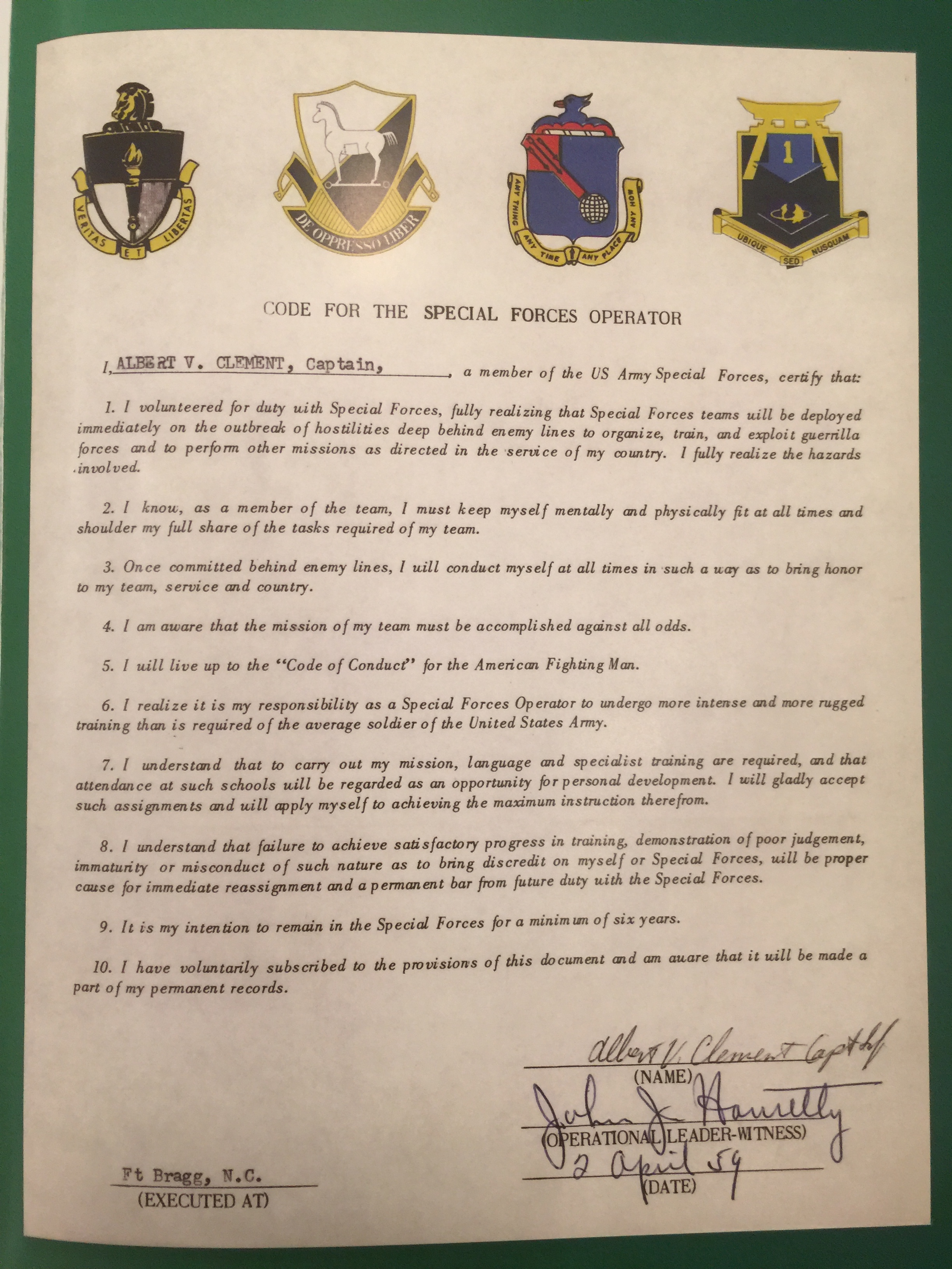 Example of the “Code of the Special Forces Operator” dated 1959. This example pre-dates DELTA among other units.